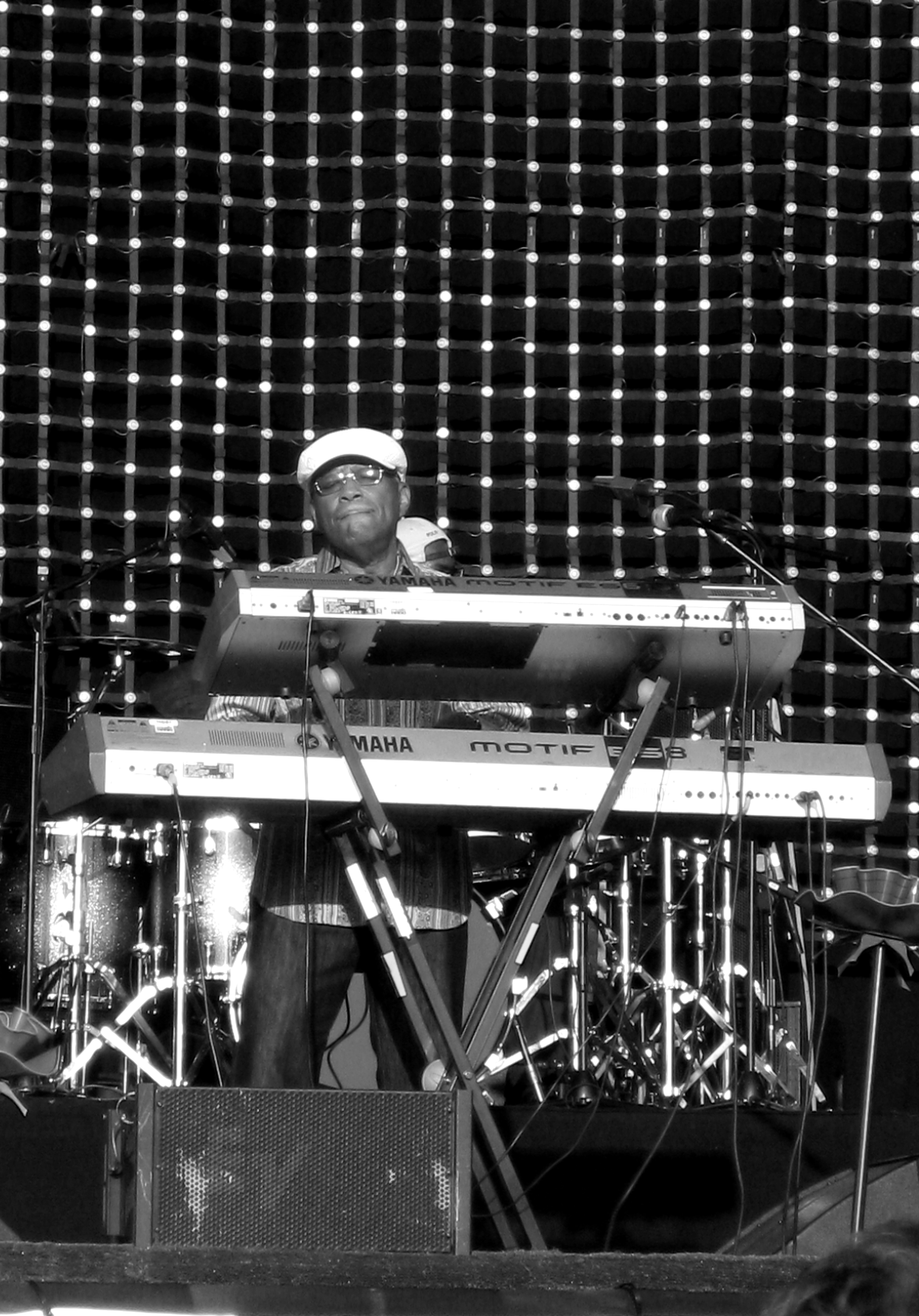 Lonnie Liston Smith performing live at the Glastonbury Festival, 27th June 2009.